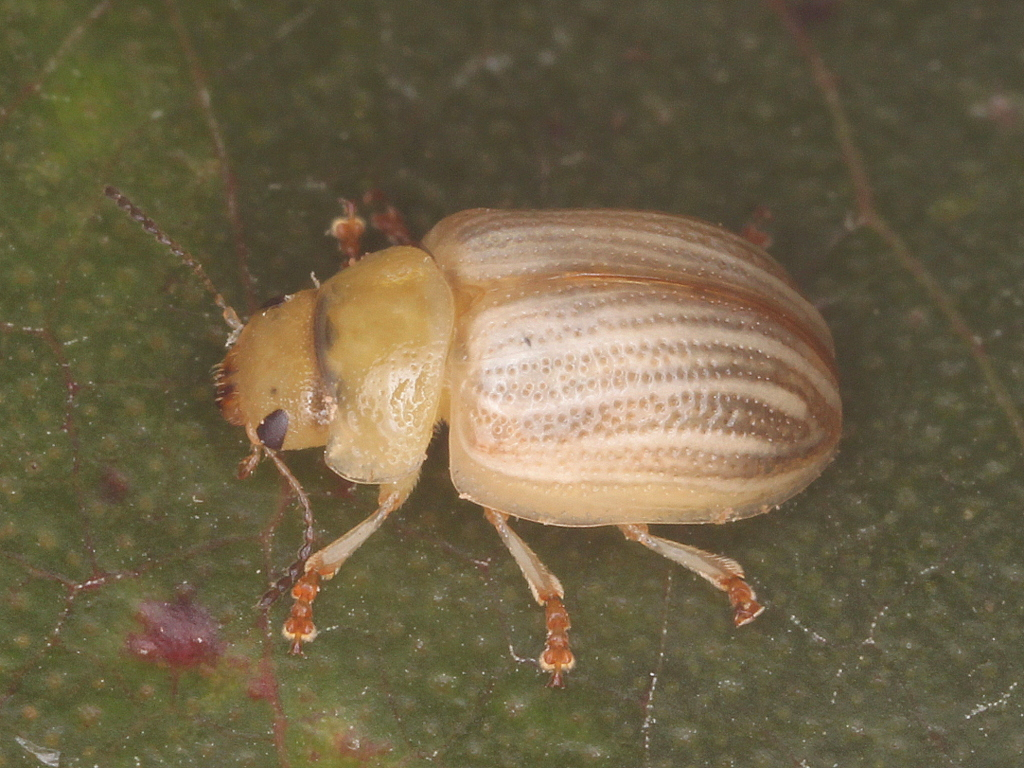 Peltoschema sp6